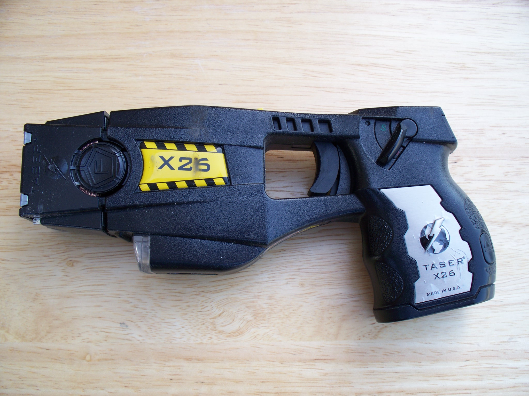 Police issue X26 TASER